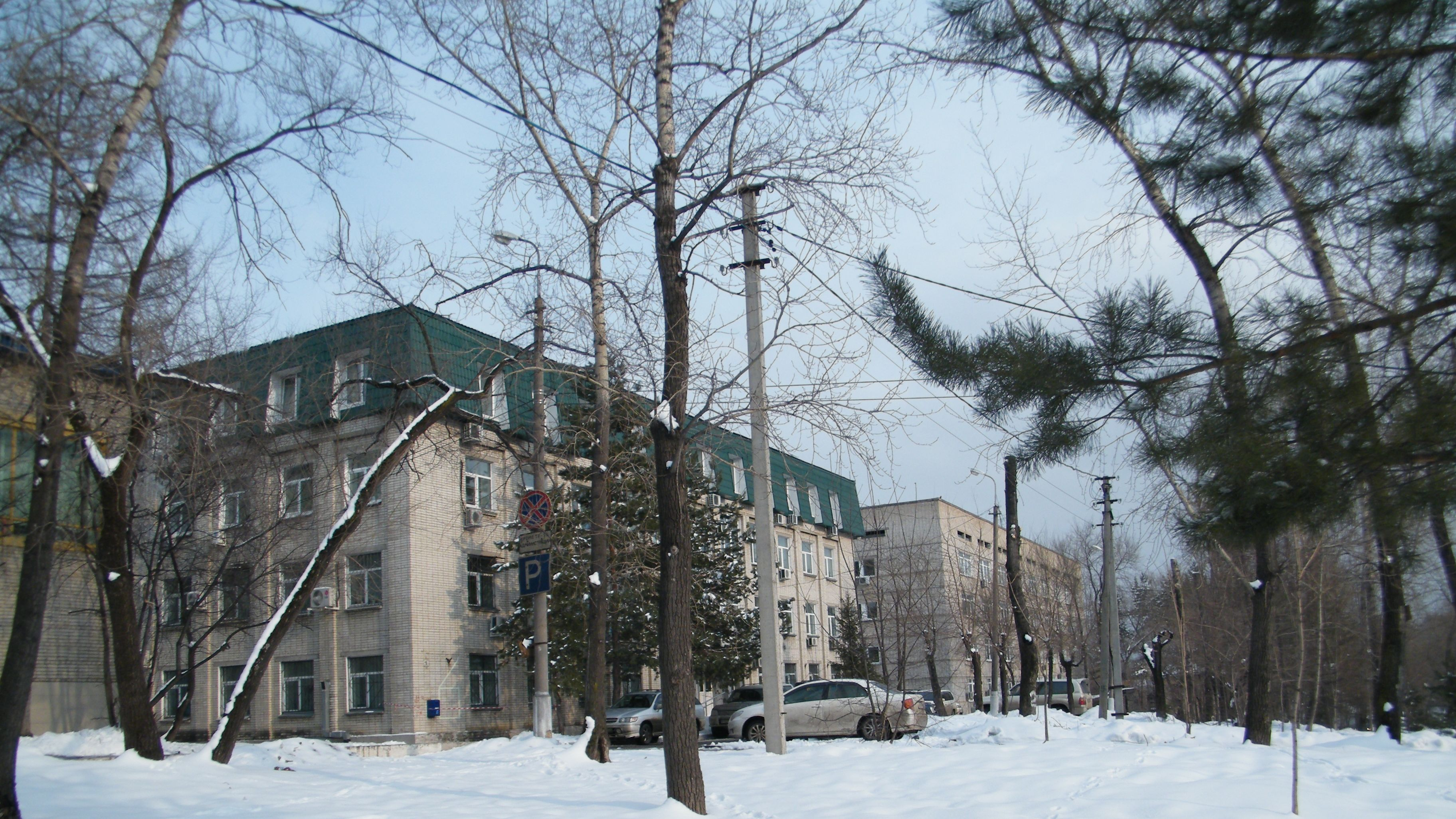 Администрация Хабаровского района Волочаевская 6